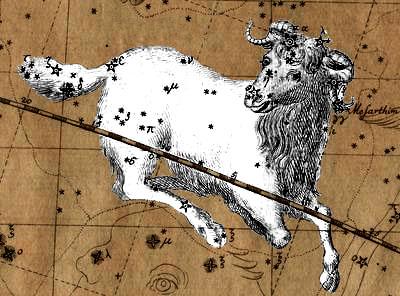 Image of Aires the Ram, for Aries (astrology), reworked from old astrology chart